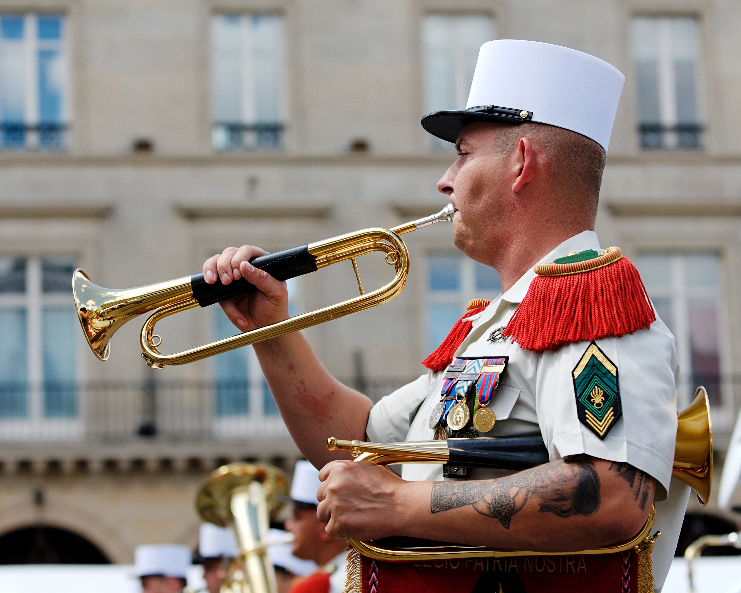 Soldier of the Music of the French Foreign Legion playing the bugle during the celebrations of Bastille Day 2008 in Paris.